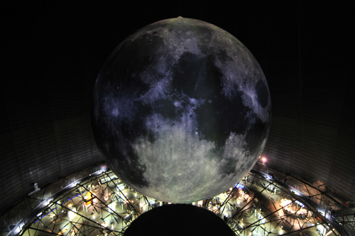 The biggest Moon on Earth